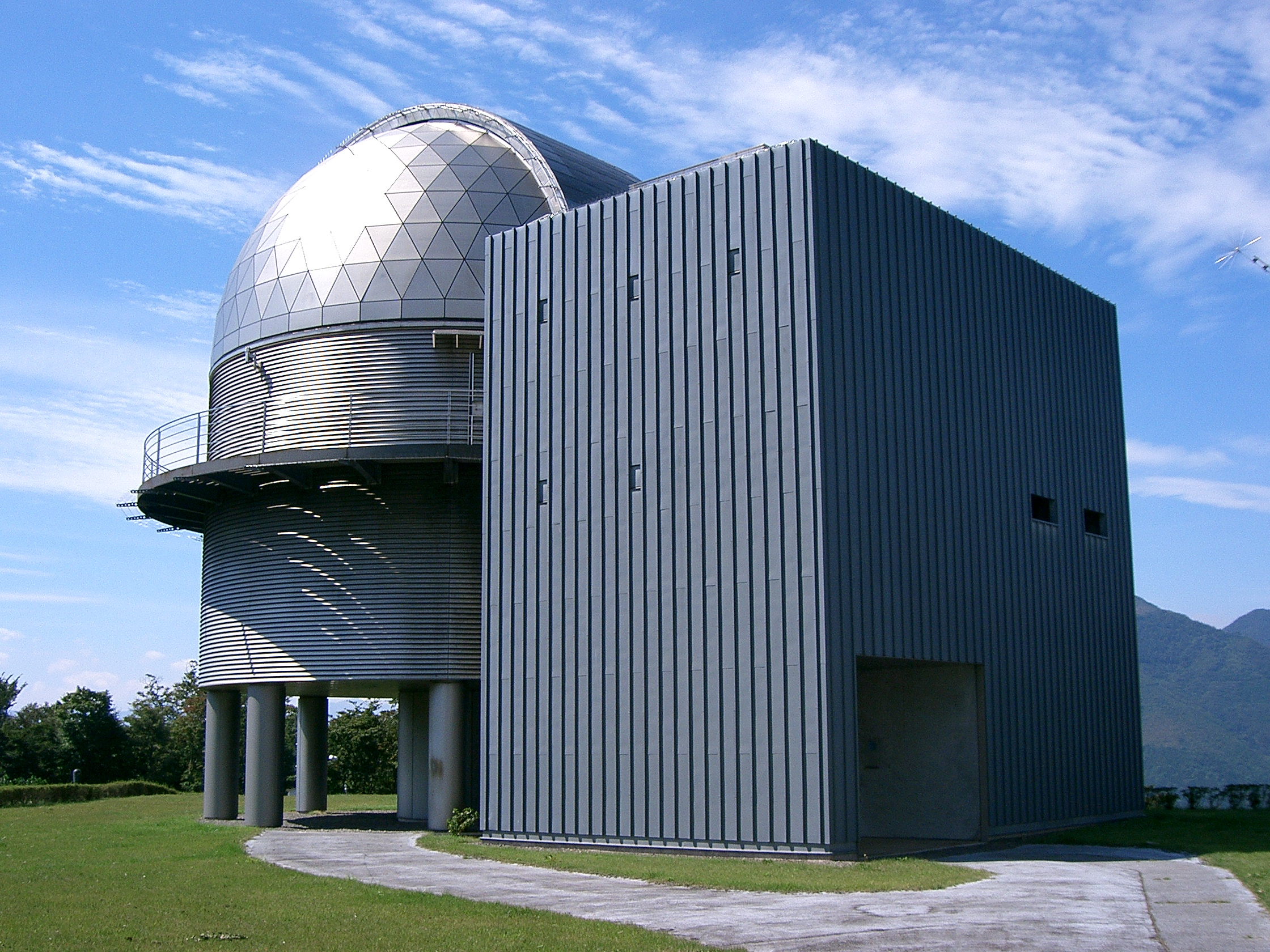 11-meter dome of Gunma Astronomical Observatory (GAO), storing 150-centimeter telescope.